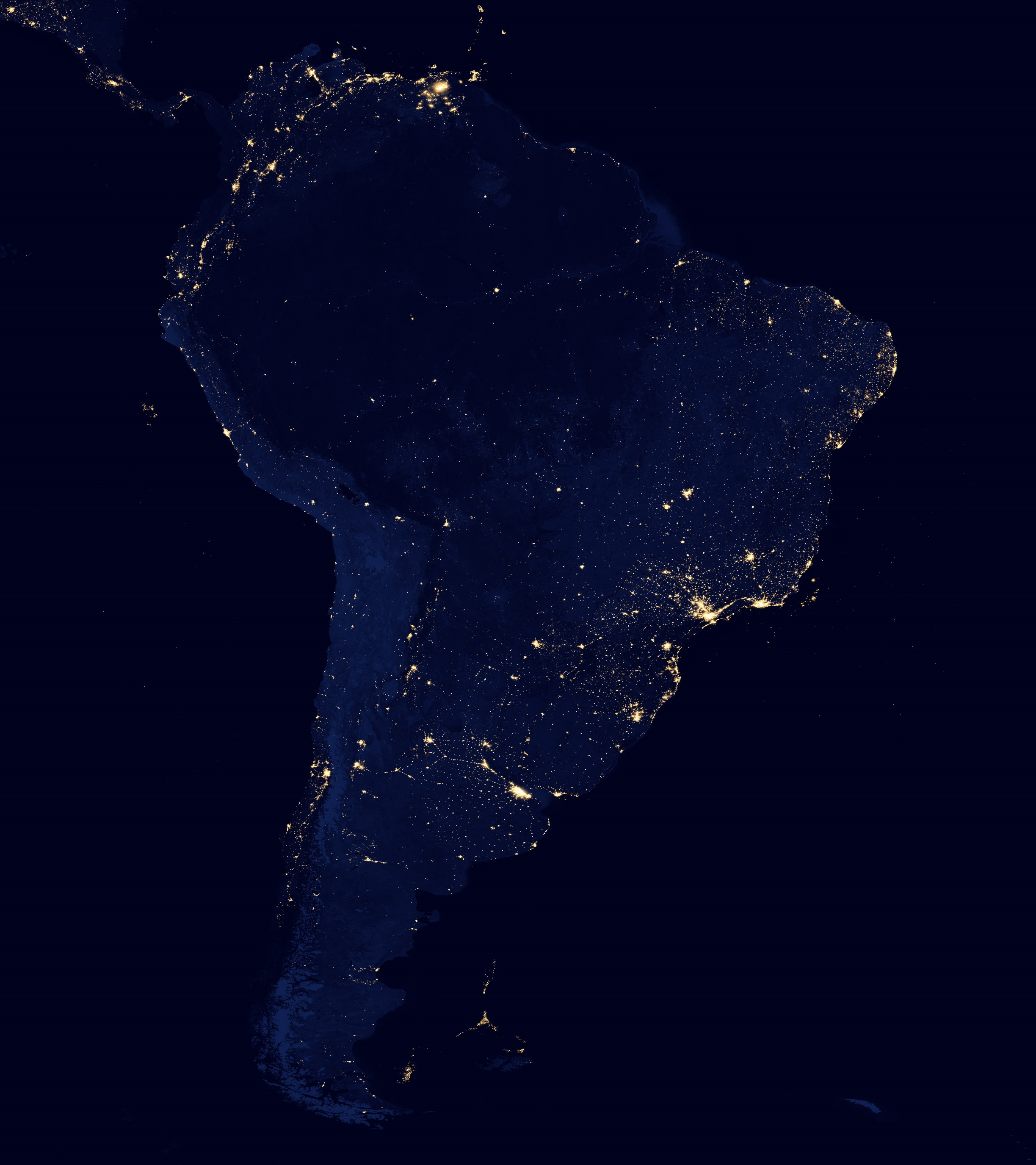 South America, seen from space at night